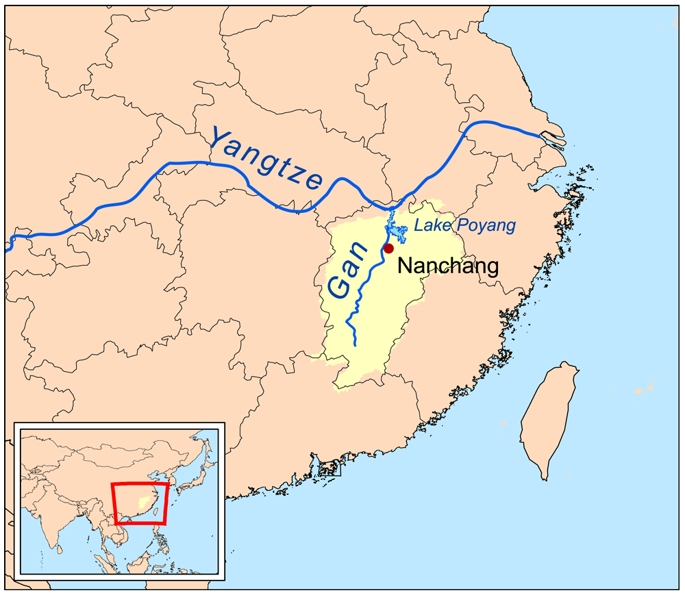 This is a map of the Gan River drainage basin.